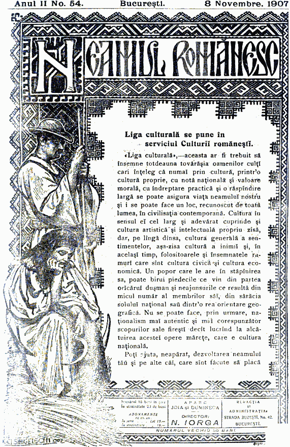 Neamul Românesc logo for issue no. 54, 2nd year, dated November 8, 1907